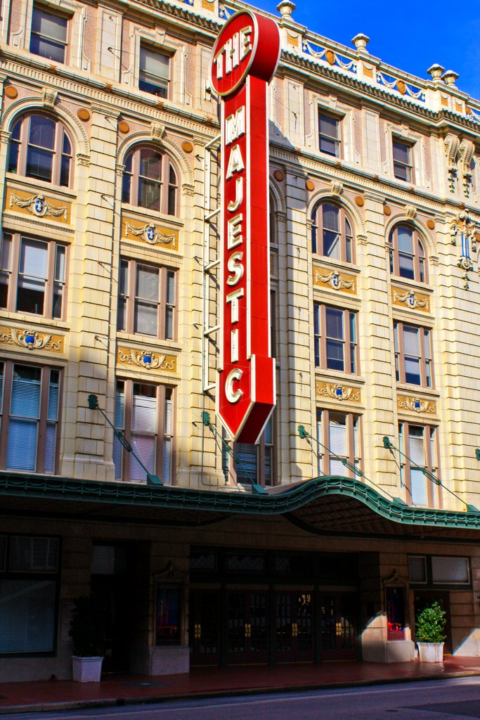 Exterior view of the Majestic Theatre